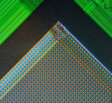 A micrograph of the corner of the photosensor array of a ‘webcam’ digital camera. The array is below the black chevron. This image has been digitally sharpened.